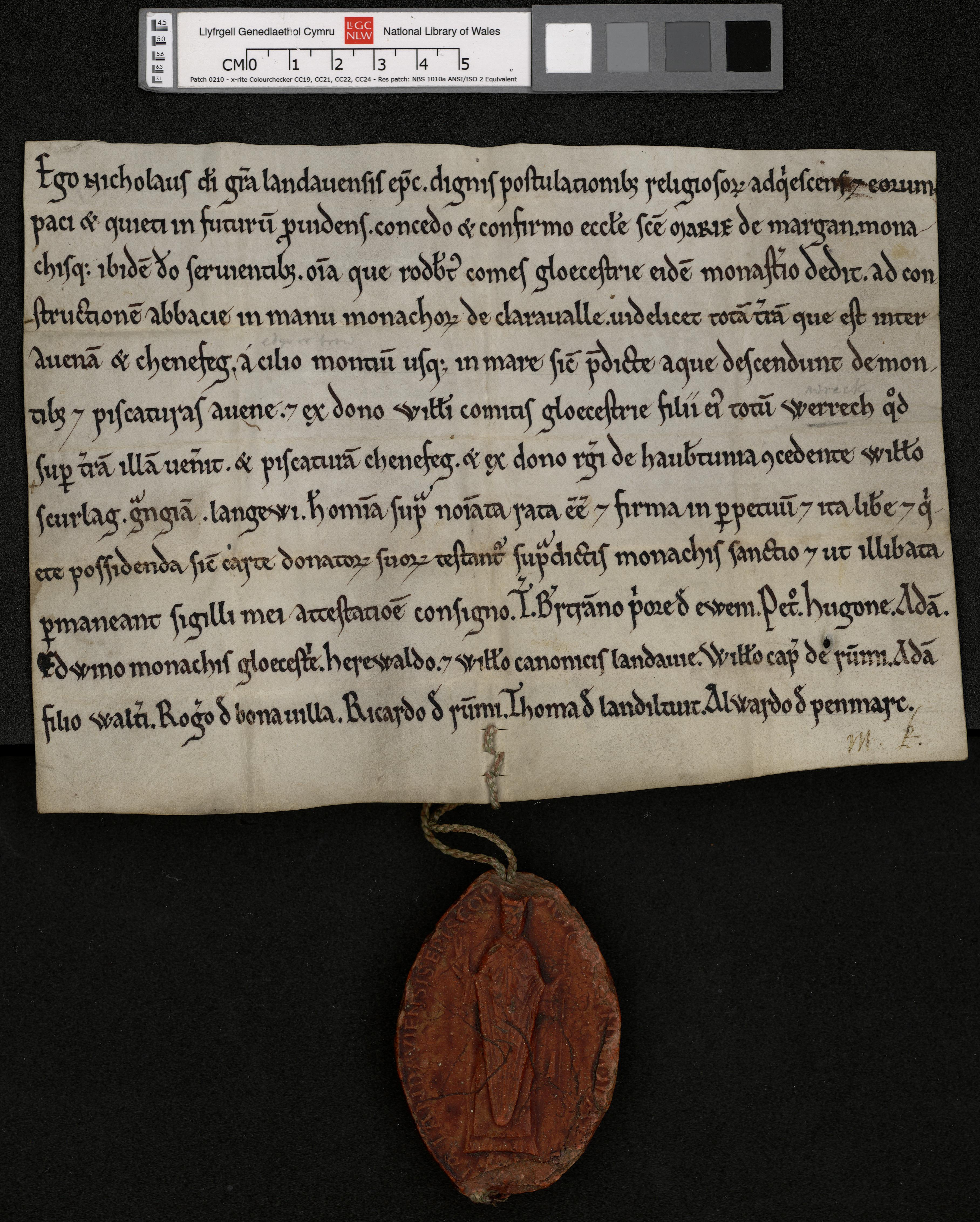 Dyddiad / Date : 1148x1183 Disgrifiad/Description : NLW Penrice and Margam Deeds 1 Seal: Man vested for mass and wearing an archaic mitre standing full face blessing with right hand, left hand holding a crosier Rhif ffeil delwedd / Image file no. : sea00822 Rhagor o wybodaeth am brosiect Seliau yng Nghymru'r Oesoedd Canol More information about the Seals in Medieval Wales project